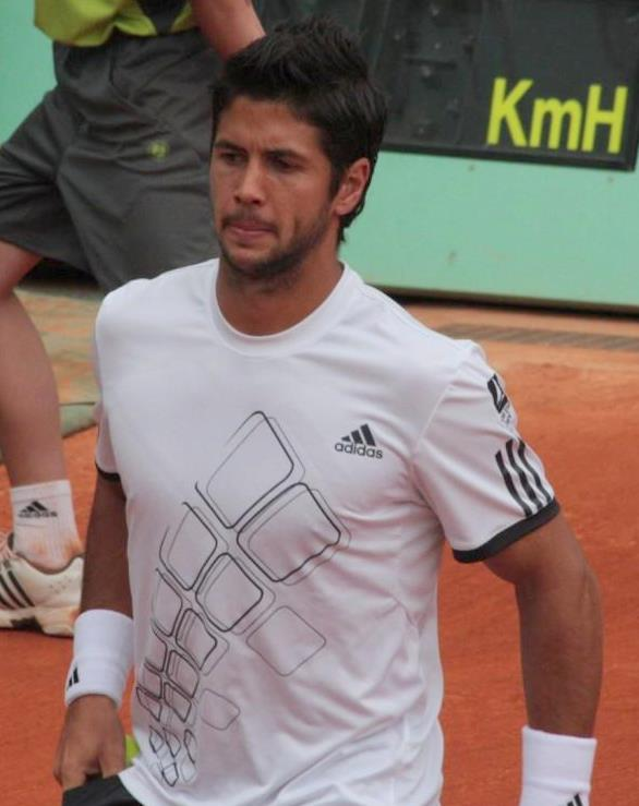 Fernando Verdasco at 2009 Roland Garros, Paris, France